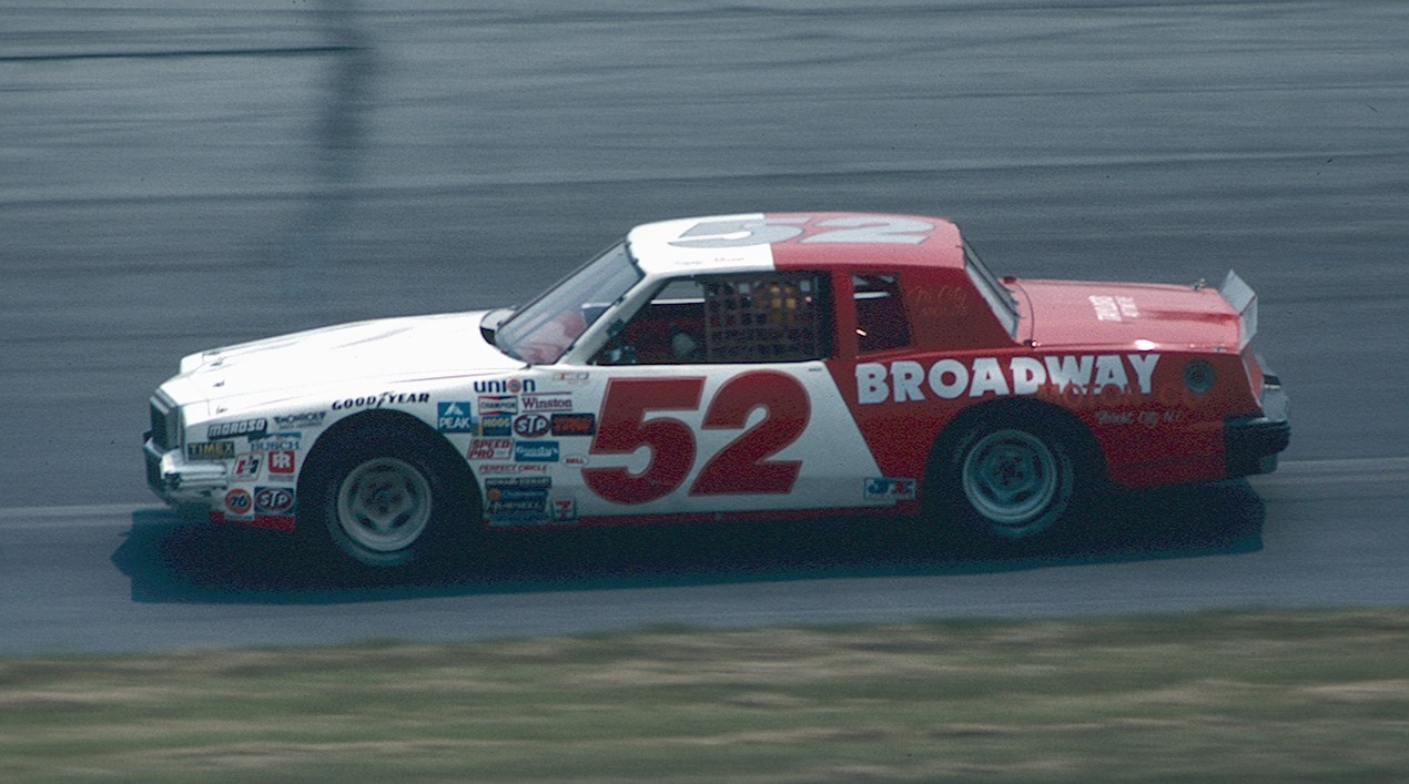 NASCAR driver Jimmy Means at Pocono Raceway. Photo by Ted Van Pelt.